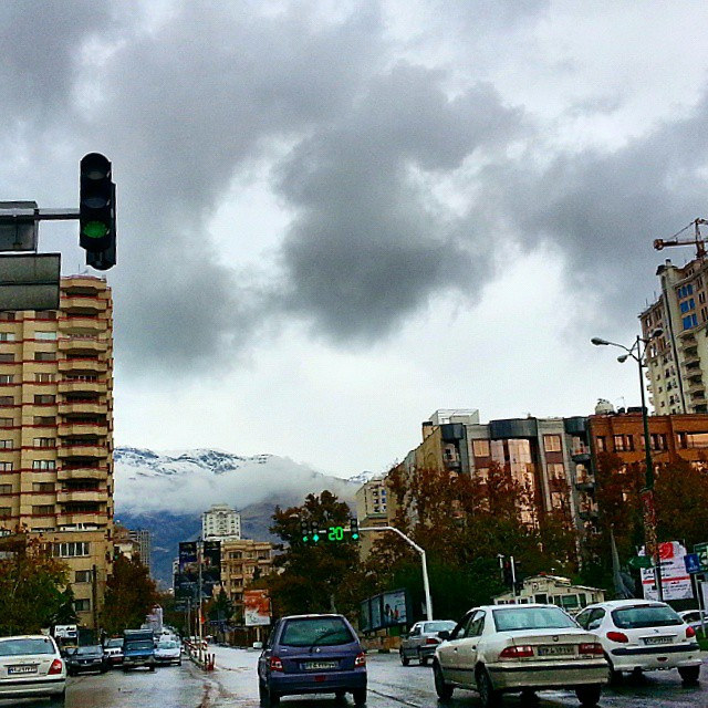 A street in Tehran after rain